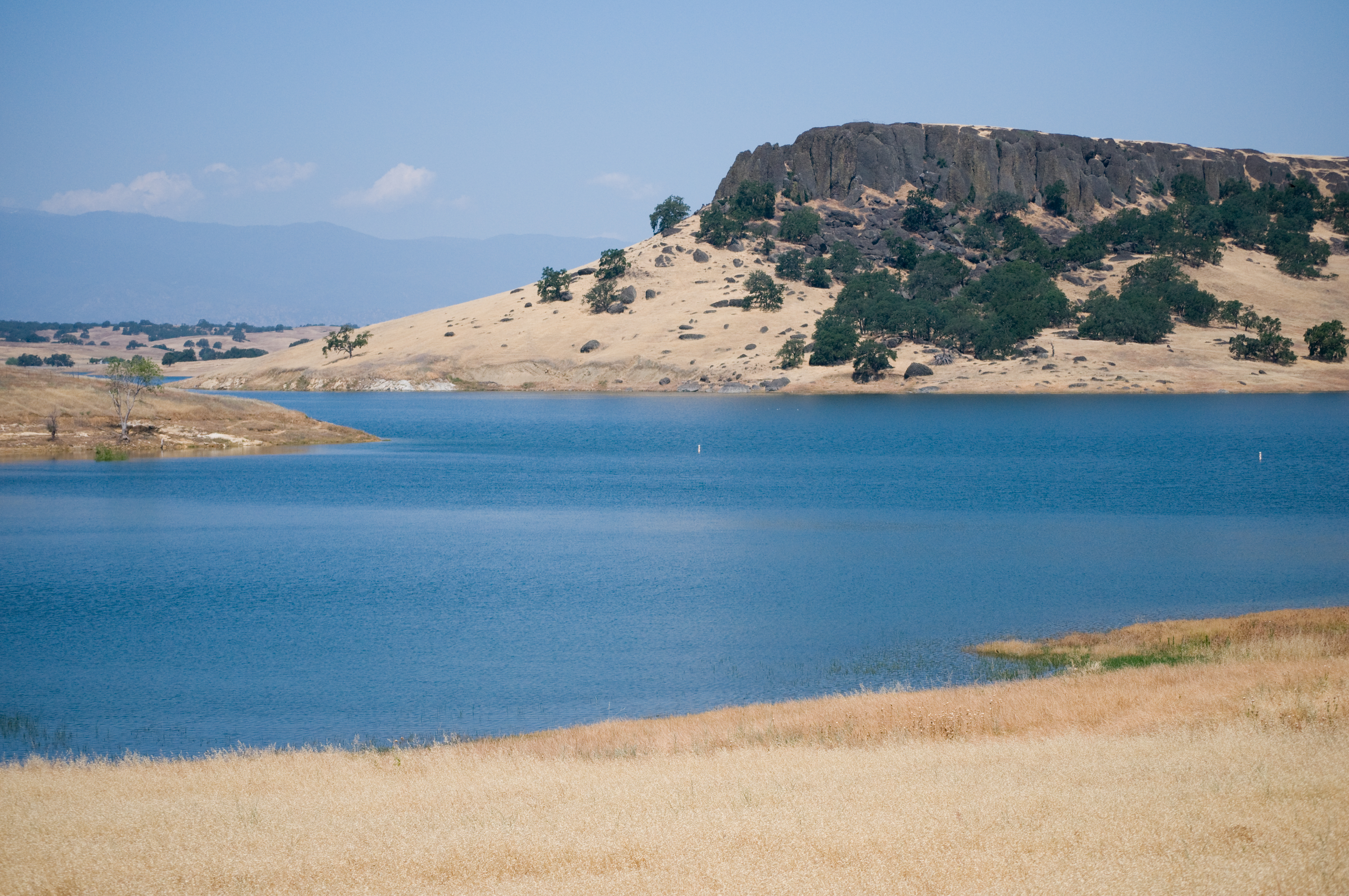 Black Butte Dam, shown here May 28, 2009, is located near Orland, Calif., in Tehama and Glenn counties. Completed by the U.S. Army Corps of Engineers Sacramento District in 1963, the dam impounds Stony Creek, creating Black Butte Lake. When full, the lake has a surface area of 4,460 acres, is seven miles long and boasts a shoreline of 40 miles. The dam reduces flood risk for nearby towns and agricultural lands. Black Butte Lake and Dam are managed by the Sacramento District. (U.S. Army Photo/Chris Gray-Garcia)